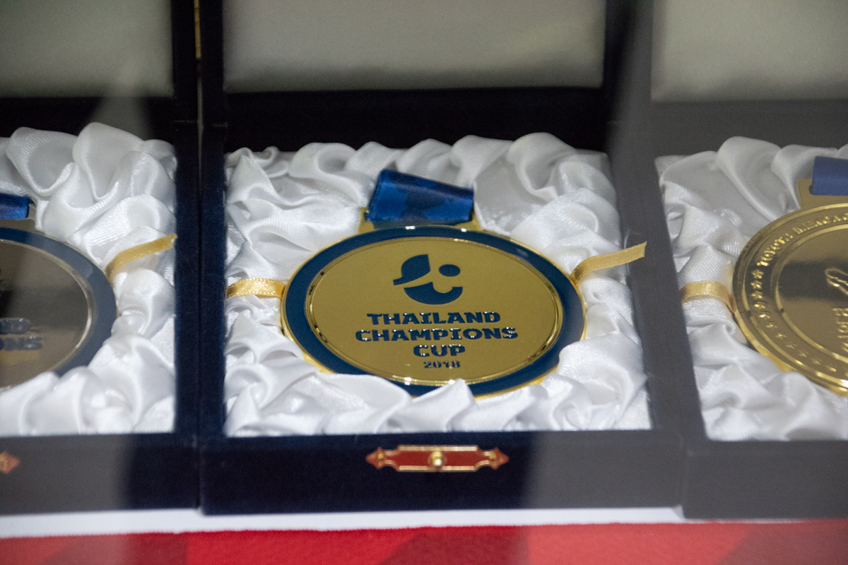 Thai Champions Cup Medal (2017)